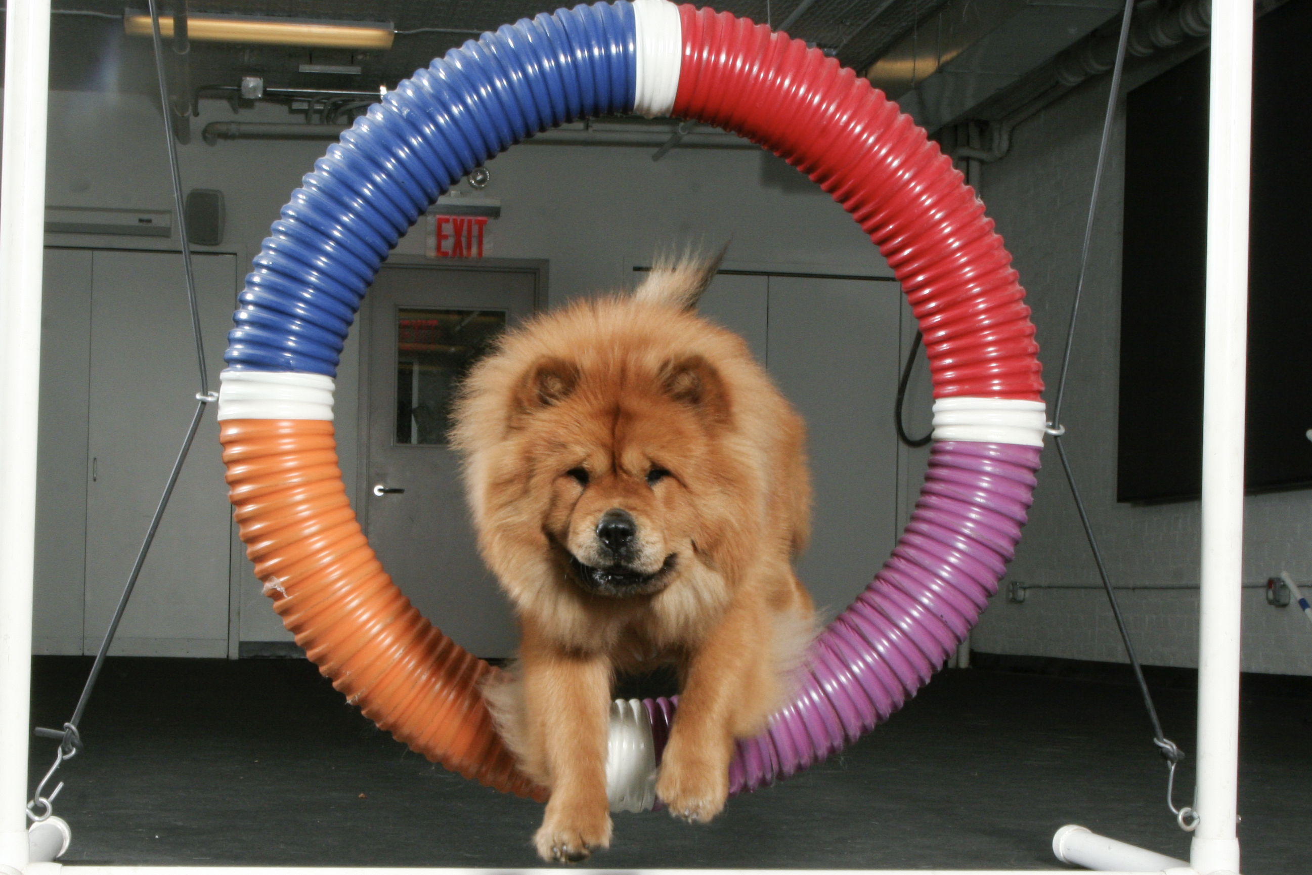 Angel the Chow chow - Tire